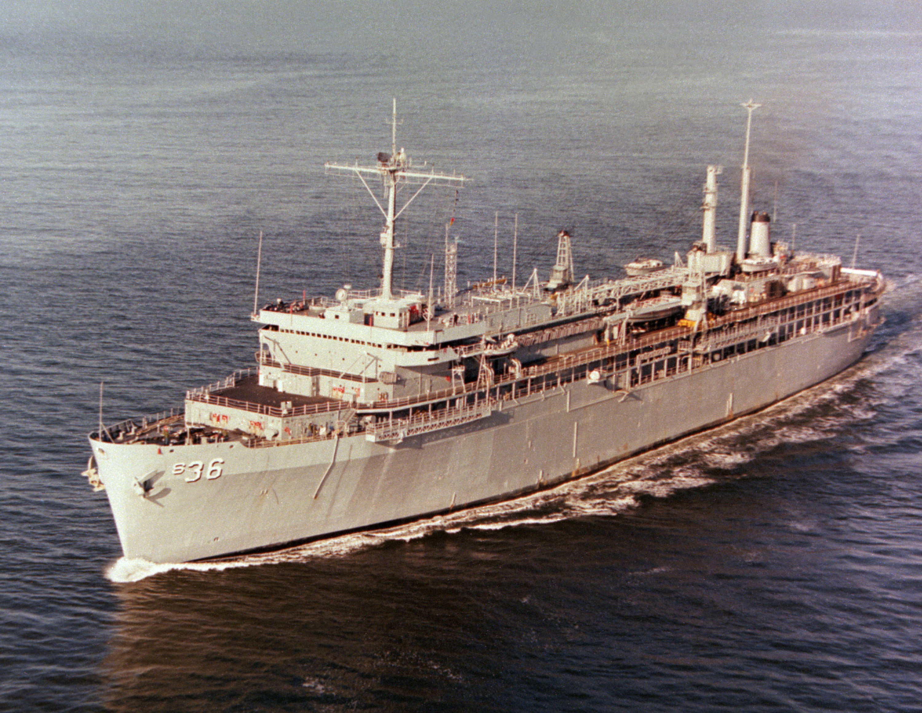 The U.S. Navy submarine tender USS L. Y. Spear (AS-36) underway.